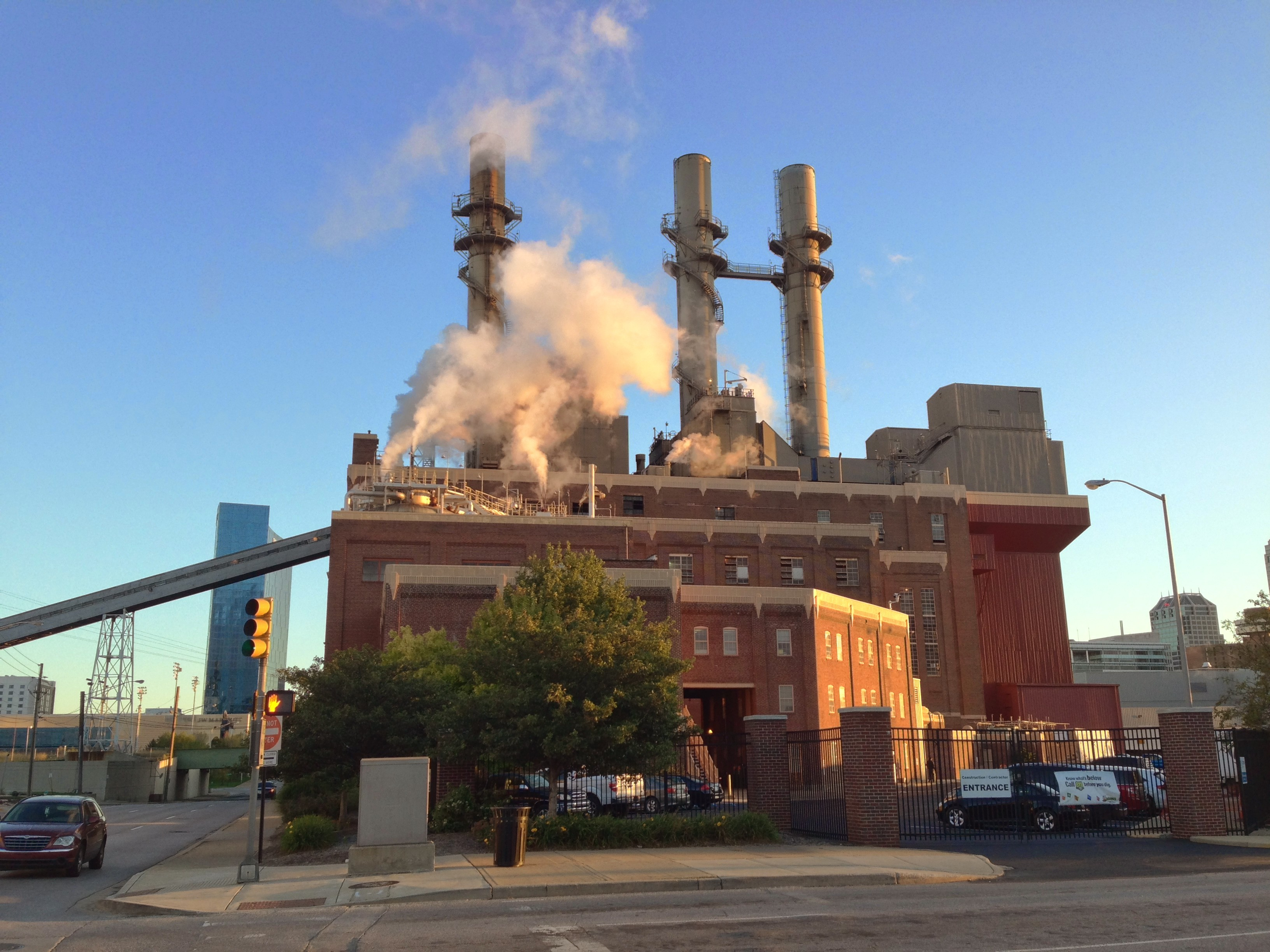 View of Citizens Energy Group's Perry K. Generating Station from the intersection of W. South St., S. West St., and Kentucky Ave. in Indianapolis, Indiana, USA.